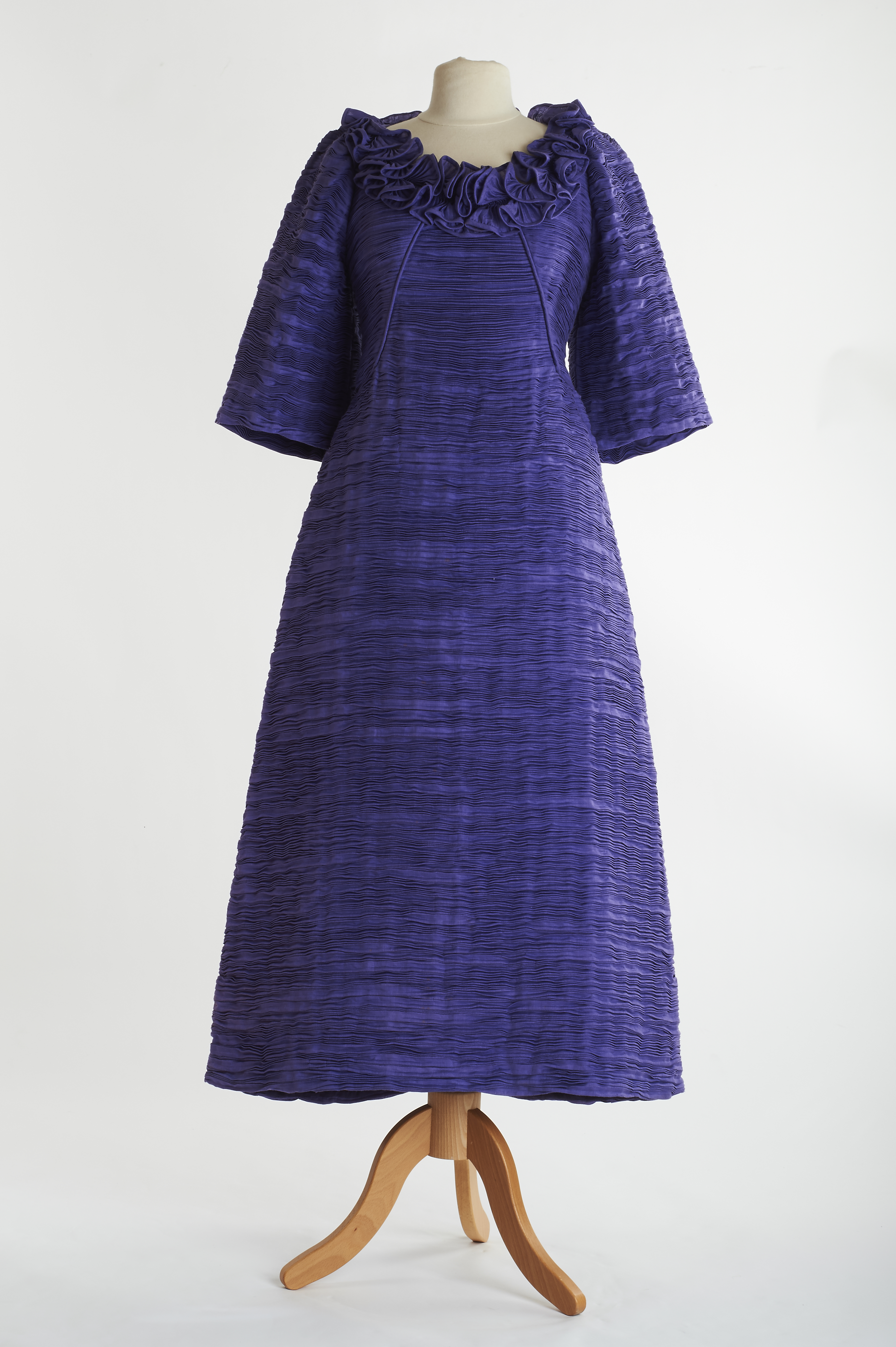 Dress c. 1970 of gossamer pleated linen in horizontal rows with fitted bodice, frilled scoop neckline and three quarter length sleeves.